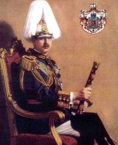 King Carol II of Romania, official portrait